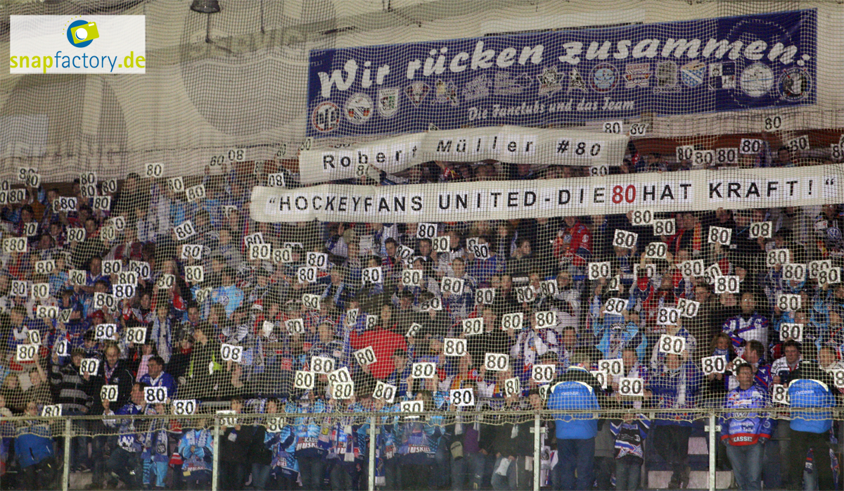 "Die 80 hat Kraft!" campain for Robert Müller (ice hockey player) at Kassel Eissporthalle.